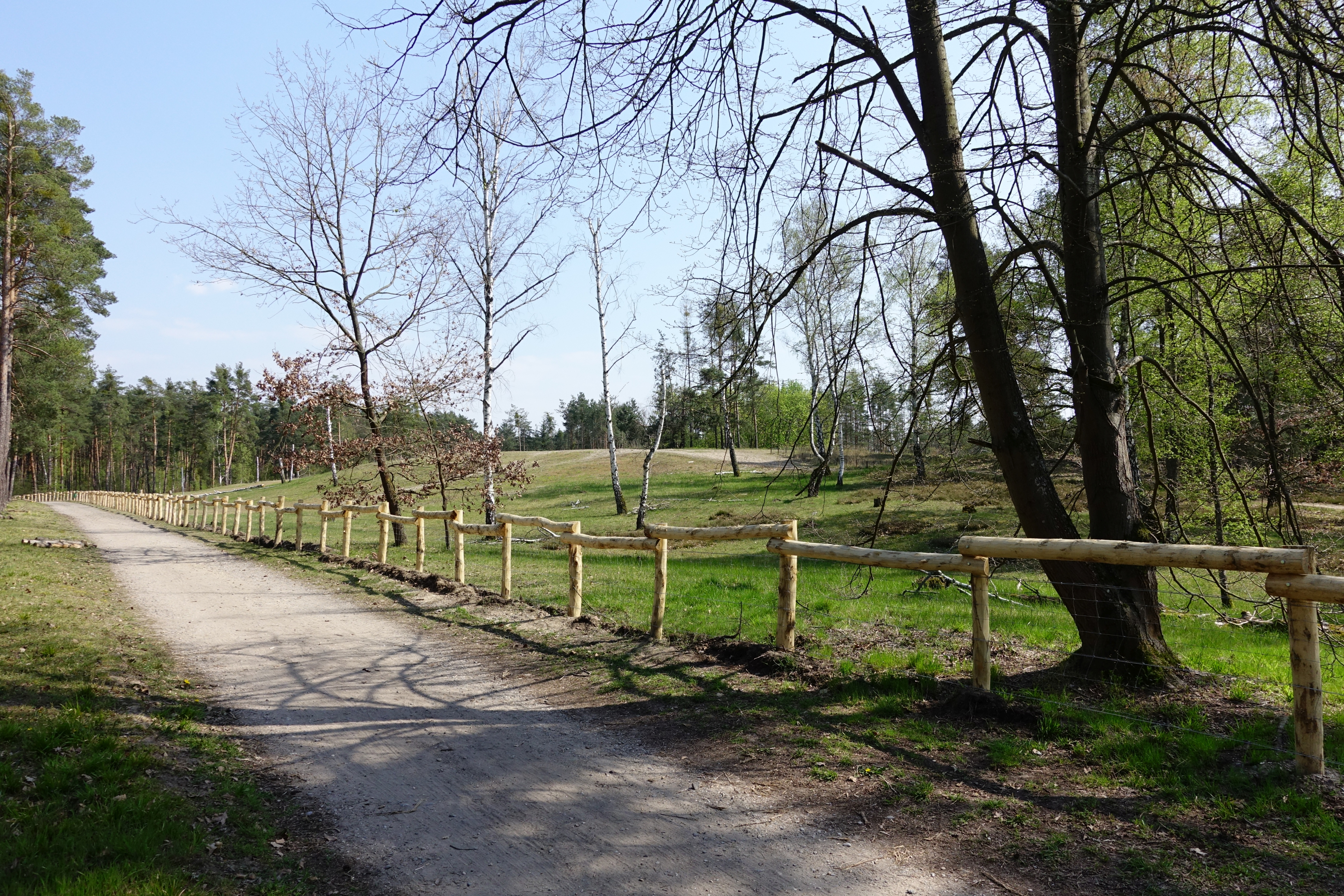 Protected area (nature reserve), Naturschutzgebiet Hirschacker und Dossenwald near Schwetzingen and Mannheim, Germany, new fence to protect a part with sensitive animals and plants